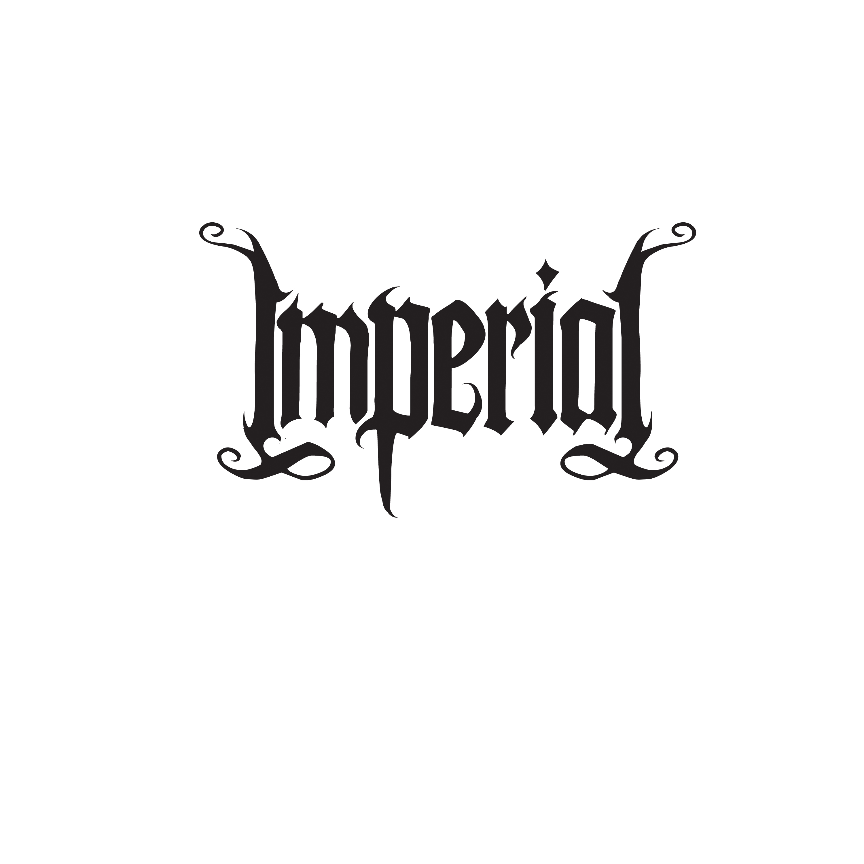 Imperial logo